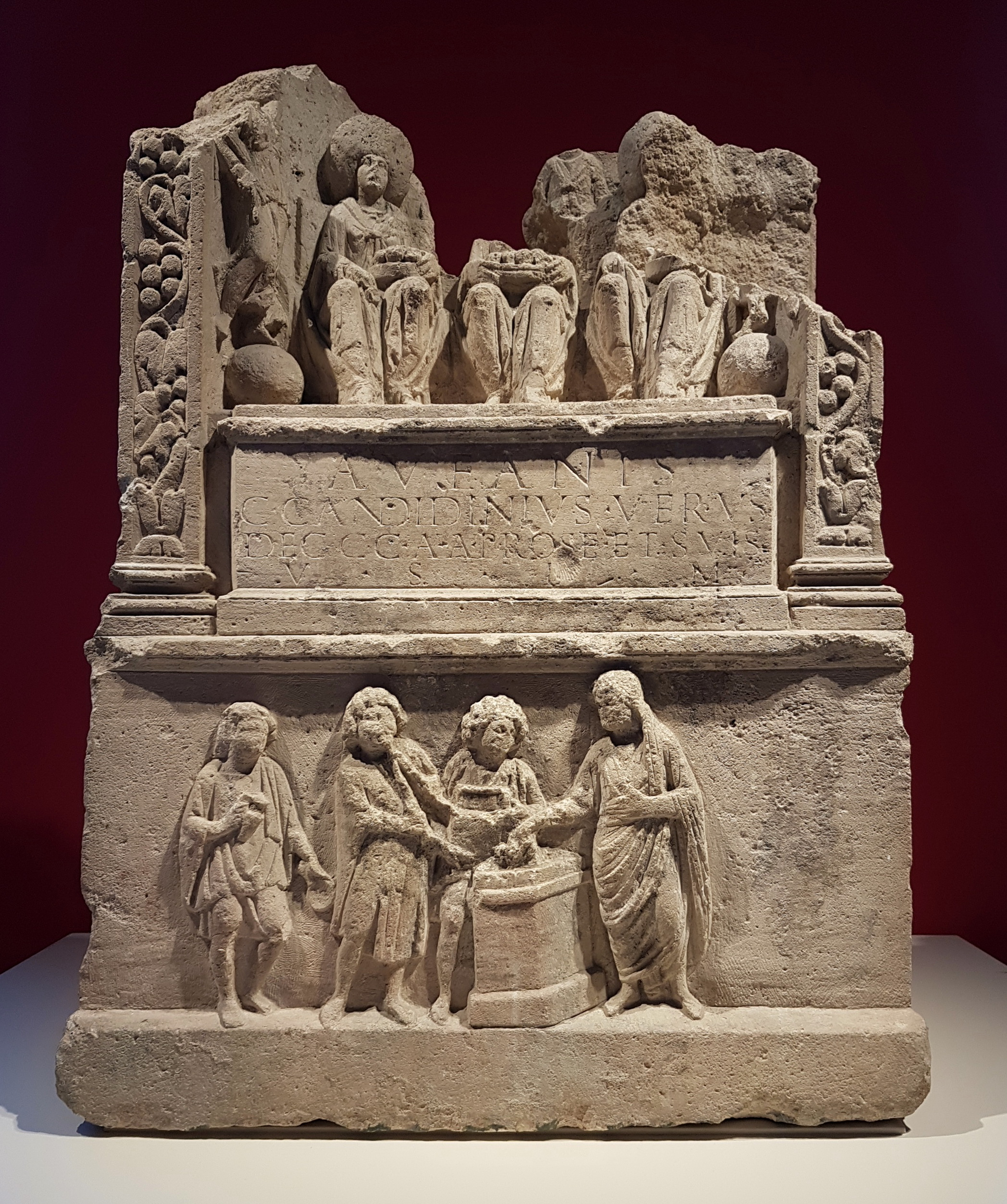 Matronae altar (164 AD) excavated in Bonn Minster, now in the Rheinisches Landesmuseum in Bonn, Germany. The three Matronae Aufaniae are sitting on a bench and holding fruit baskets. This type of matronae have been found in Bonn, Nettersheim and Xanten. Below a sacrifice is depicted, perhaps with donor portraits of Caius Candidinius Verus, councillor in Cologne, and his family. On the sides of the altar trees are depicted. AE 1931, 18 = AE 1932, 8 = AE 1934, 25 = AE 1939, 235: Aufanis / C(aius) Candidinius Verus / dec(urio) c(oloniae) C(laudiae) A(rae) A(grippinensium) pro se et suis / v(otum) s(olvit) l(ibens) m(erito)